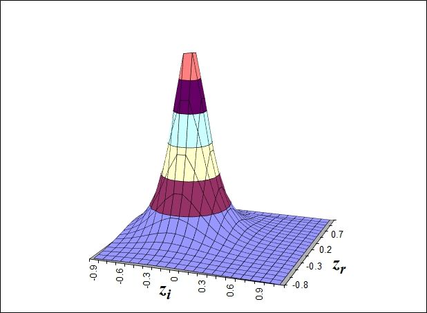 pdf of the ratio of correlated random normal samples